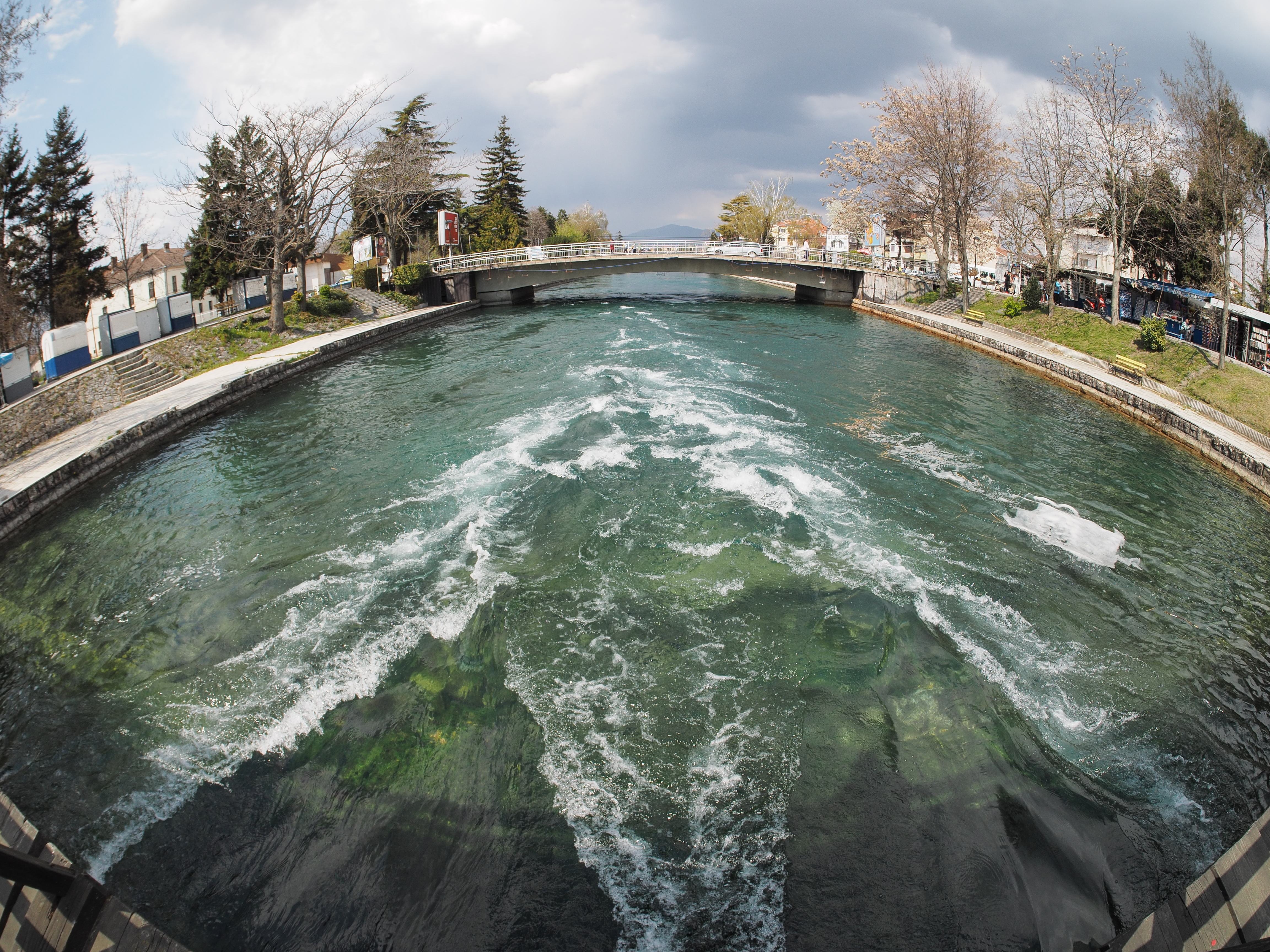 Start of river Crni Drim from its source Ohrid lake, (Struga), Macedonia Српски (ћирилица): Почетак реке Црни Дрим, која почиње код овог моста у Струги. Извор је језеро Охрид.